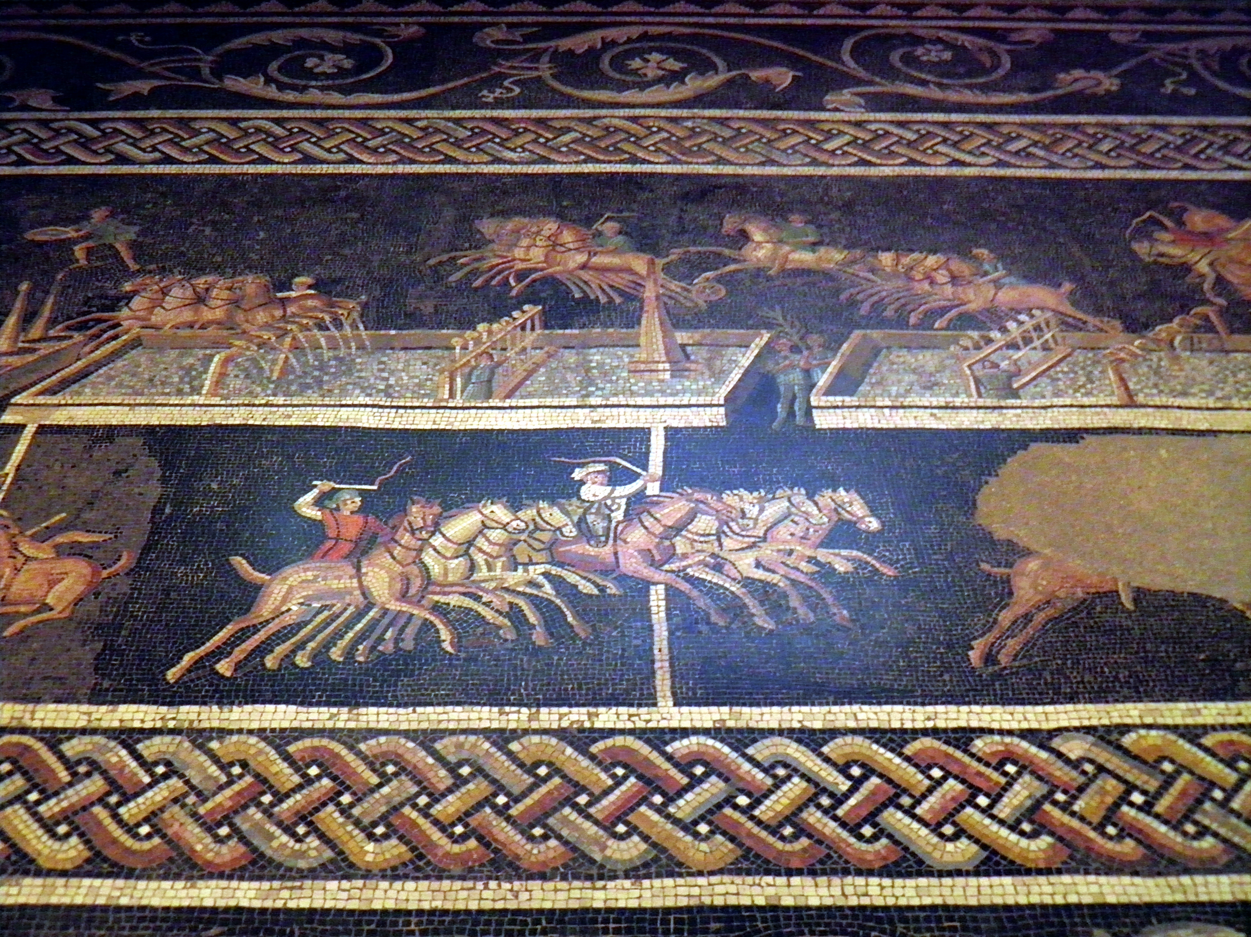 On display at the Museum of Gallo-Roman Civilization, this restored mosaic from Lugdunum (Lyon) vividly depicts a circus race. Eight chariots are competing, two from each faction, the quadrigae running around the track barrier, which consists of a channel or euripus filled with water. Here are placed the lap markers: seven dolphins, water gushing from their mouths, and seven eggs. When each lap had been run, a dolphin was tipped downward and an egg lowered from its bar (one can see that four laps already have been run). At the ends of the barrier are the turning posts (metae)on a detached plinth and, in the center, an obelisk. Between the basins, officials holding the palm branch and wreath of victory stand waiting, while a hortator rides ahead, setting the pace and assisting the charioteer. A sparsor holds a basin of water to refresh both horse and rider. (Basil, the bishop of Caesarea, actually speaks of water being thrown on the horses, when he writes about AD 375 that the arrival of a letter refreshed him "like water poured into the mouths of racehorses, inhaling dust with each eager breath at high noontide in the middle of the course," Epistle CCXXII.) The presiding magistrates can be seen above the starting gates protected by an awing, one holding the mappa that signaled the start of the race. Intriguingly, the figure next to the officials operates a lever, which may have released a latch that mechanically swung open the gates. The white line (creta) on the left, where there has been an accident, is the break line, at which point, says Cassiodorus (Variae, III.51), the chariots could leave their lanes and move to an inside position, the intention being not so much to avert crashes as to prevent them from occurring before the race had fairly begun. A second white line, opposite the obelisk, marks the finish, the Lyon mosaic being the only one to depict both lines. Source